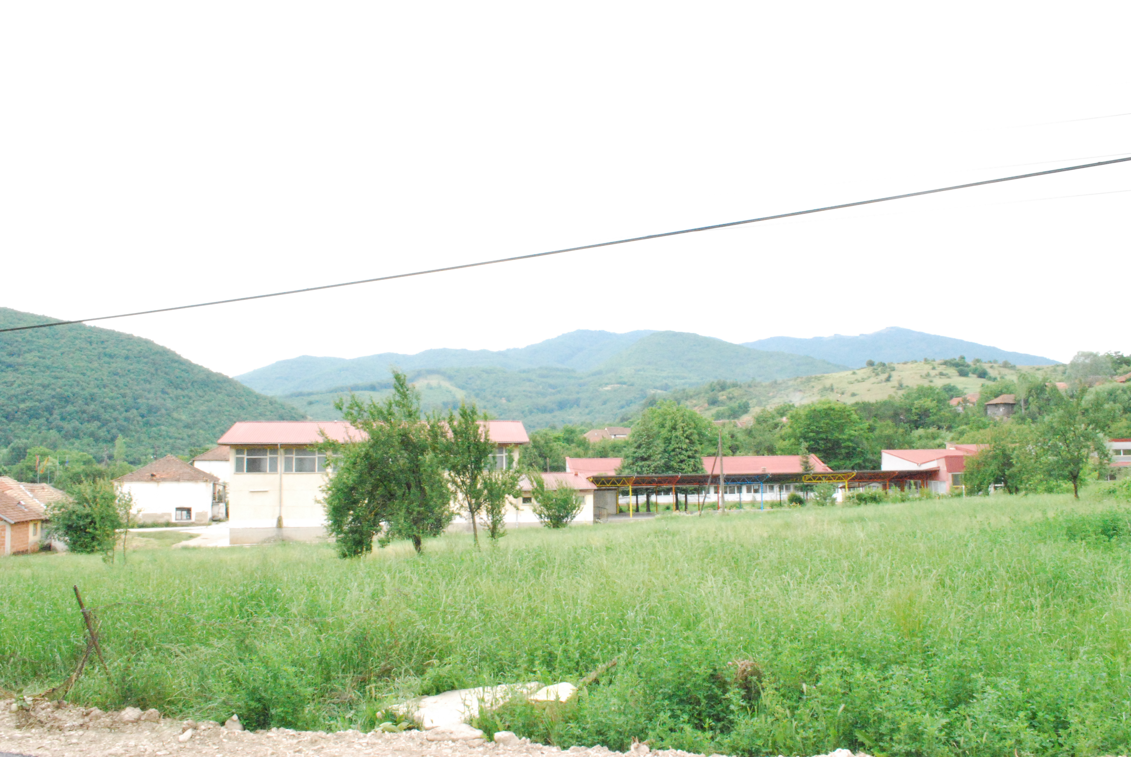 Drugovo, Macedonia